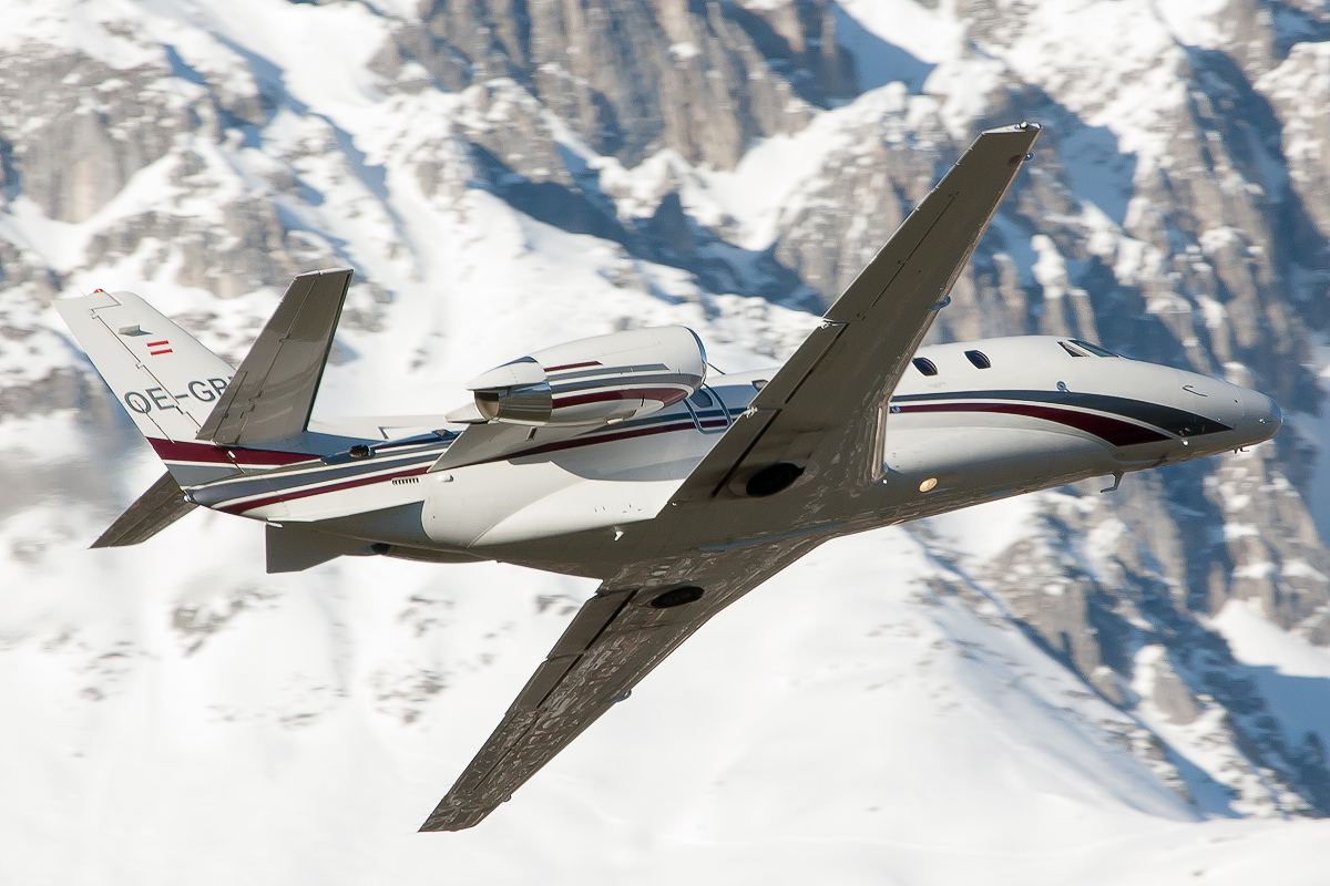 ABC Bedarfsflug Cessna 560XL Citation XLS taking off from Innsbruck Airport